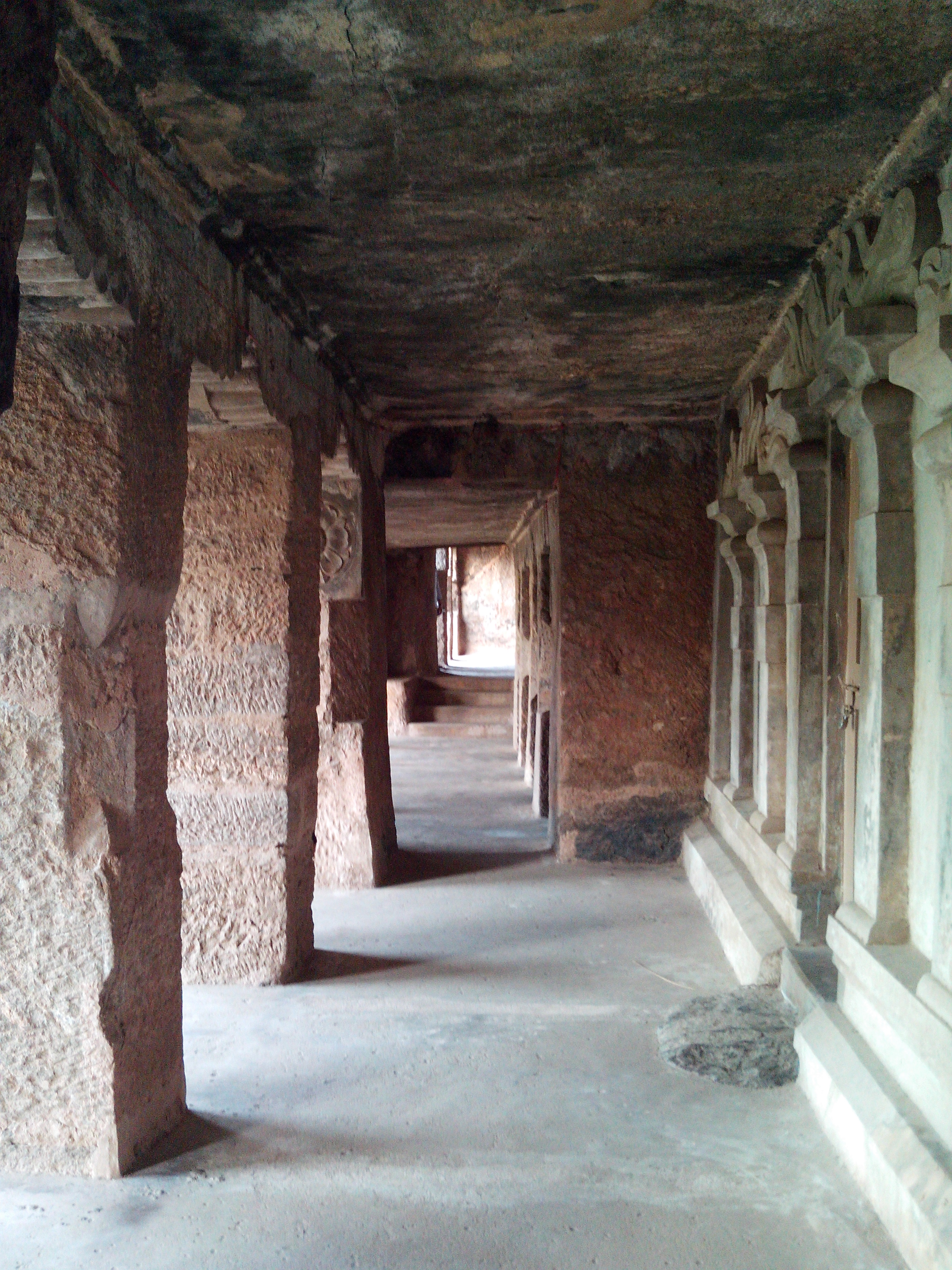 This is a view of the pillars of the Undavalli caves which were carved out of a single giant rock.